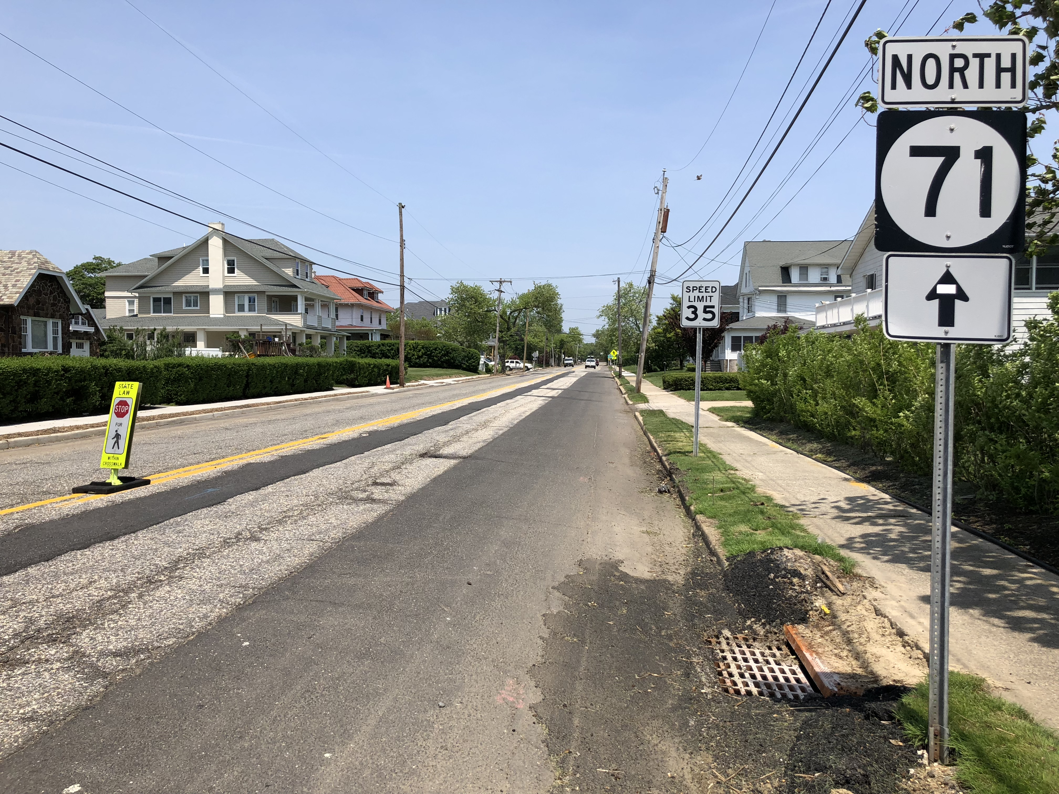 View north along New Jersey State Route 71 (Norwood Avenue) at Edgemont Drive in Loch Arbour, Monmouth County, New Jersey